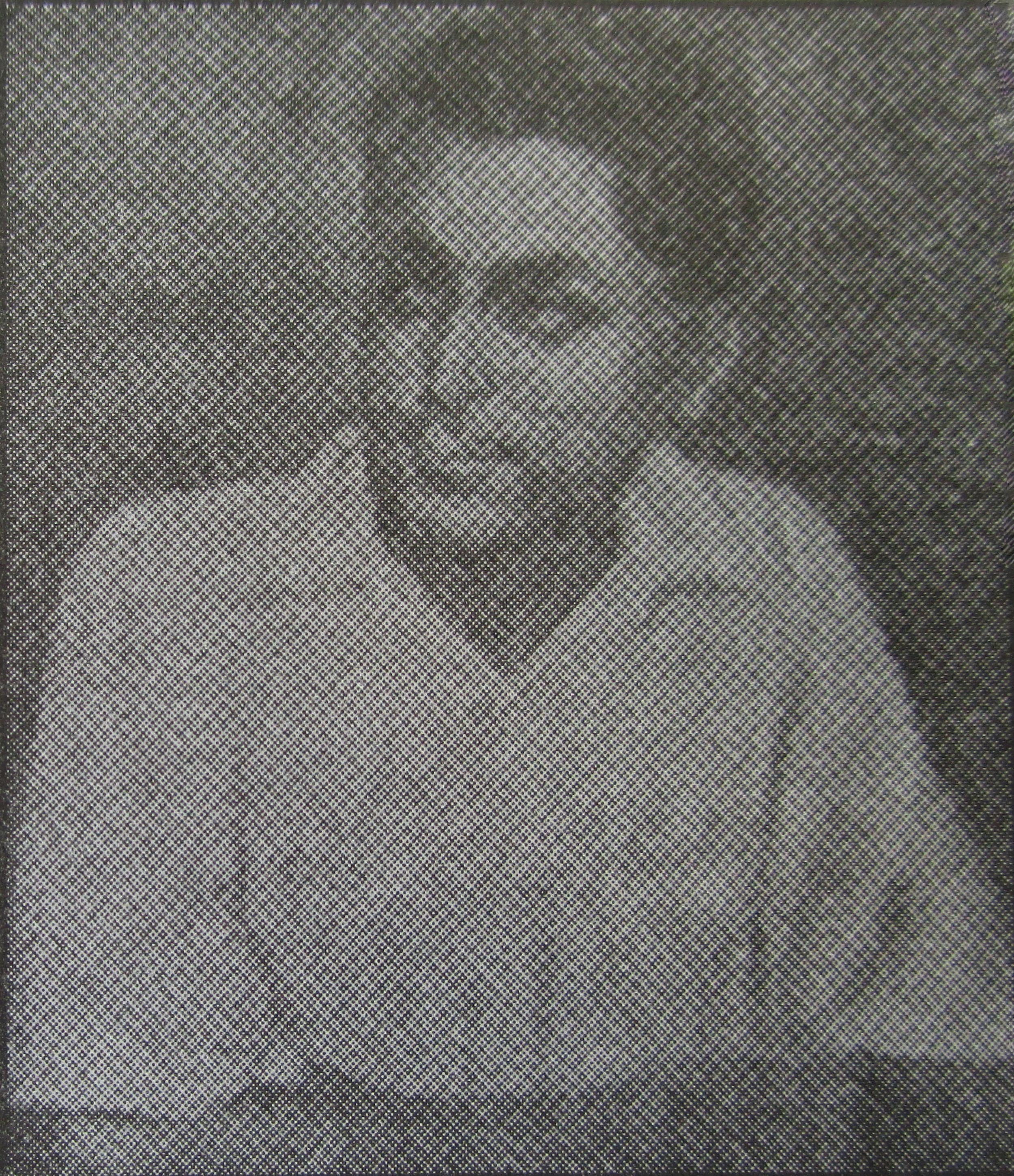 Rameshwar Banerjee